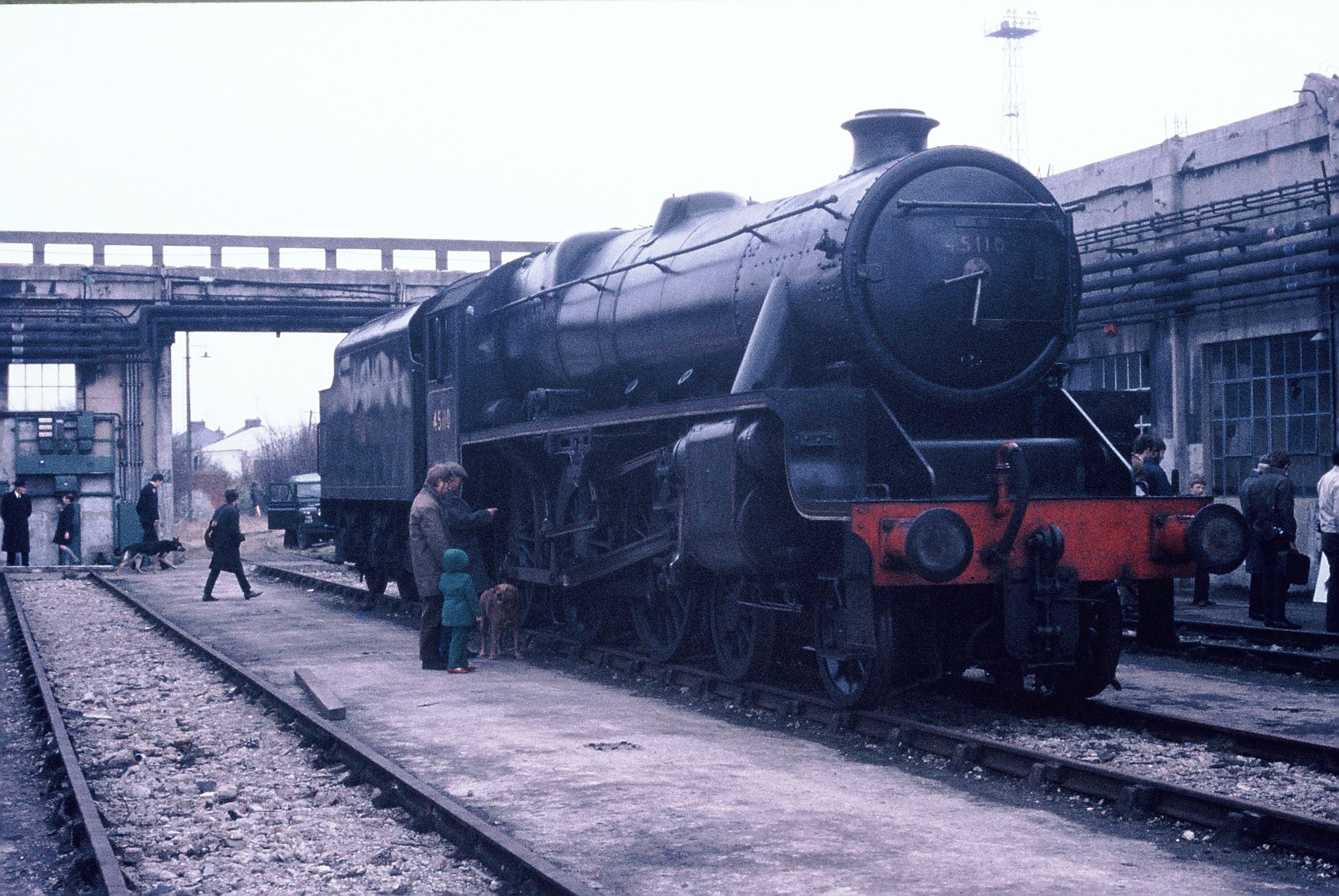 5MT 4-6-0 No. 45110 at Ashford Steam Centre.